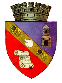 Coat of arms of Slobozia, Ialomița County, Romania.